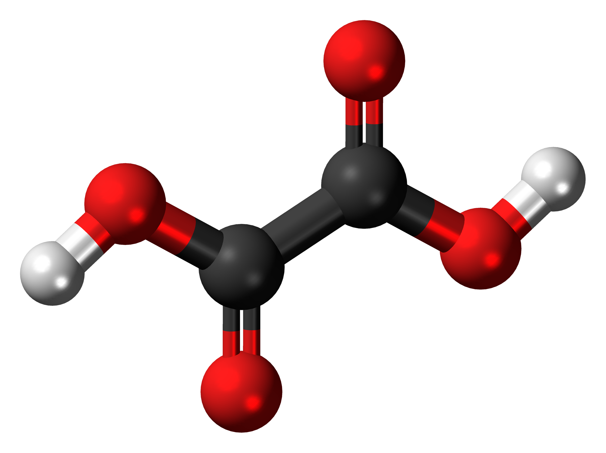 Ball-and-stick model of the oxalic acid molecule, a dicarboxylic acid with 2 carbons. Colour code: Carbon, C: black Hydrogen, H: white Oxygen, O: red